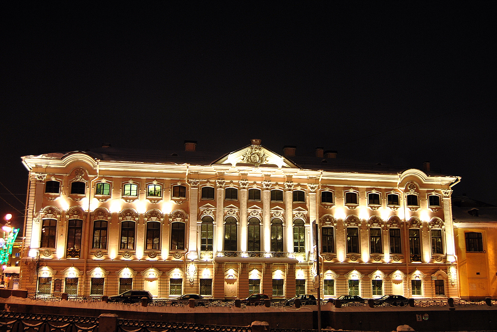 Вид на Строгановский дворец с Мойки